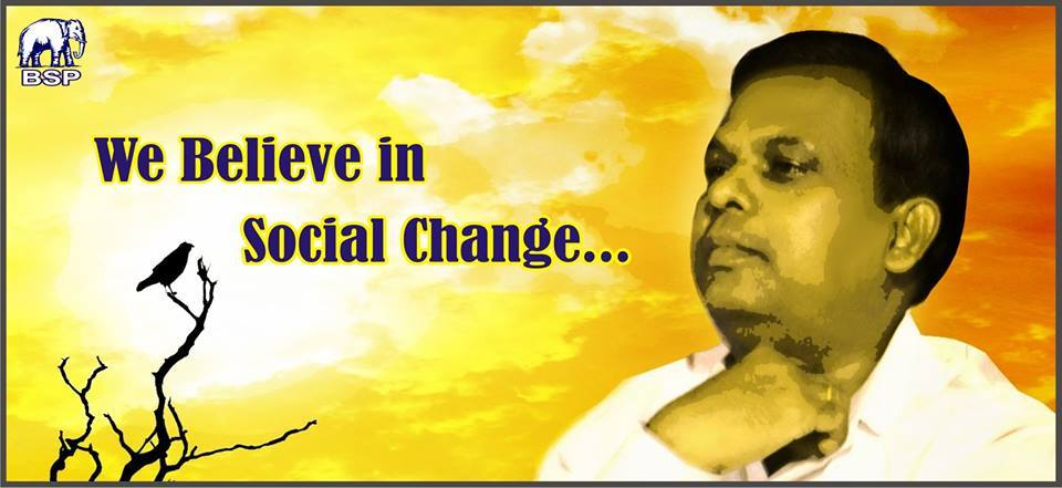 We Belive in Social Channge